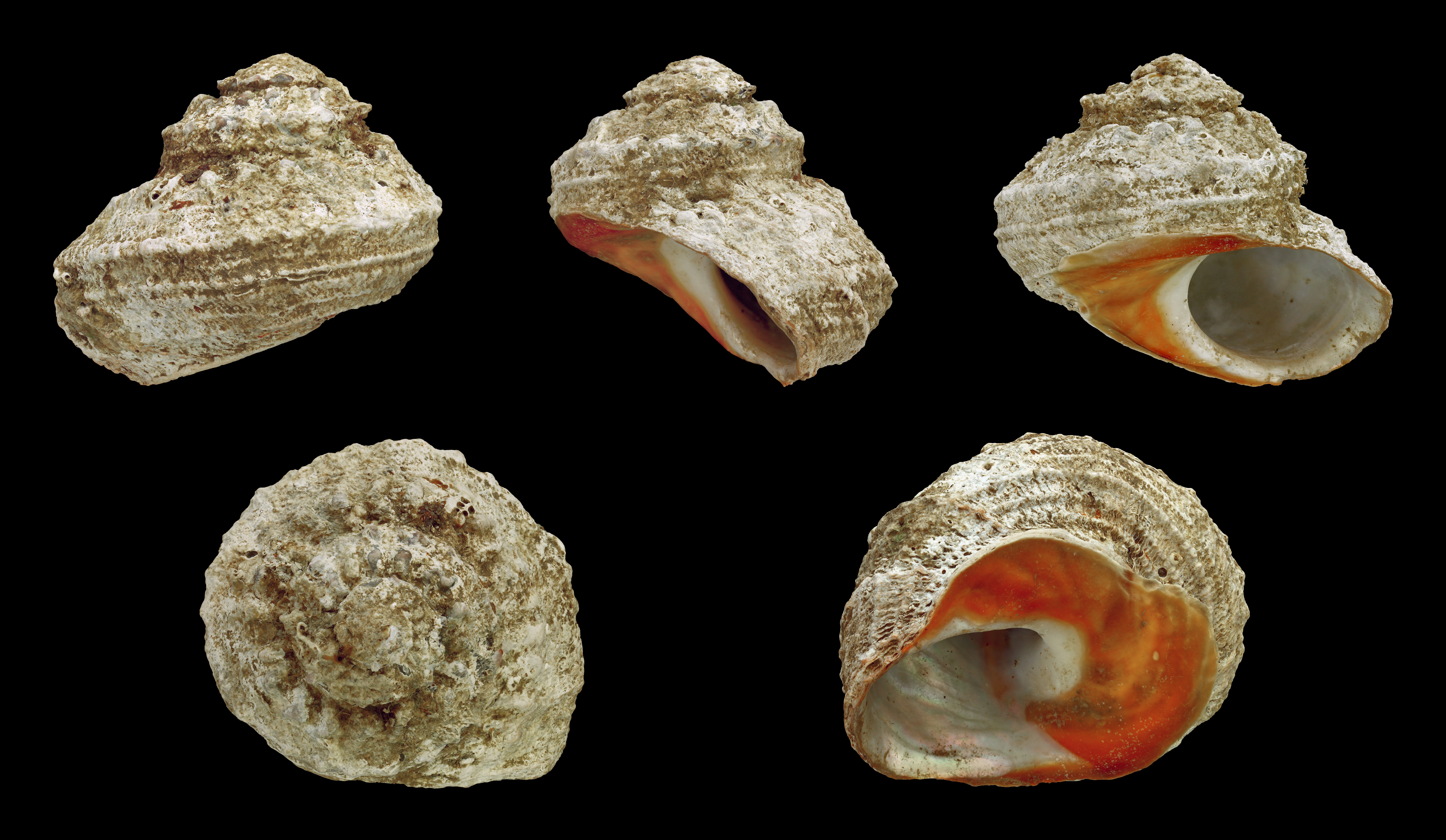 Chestnut Turban; Diameter 5.1 cm; Originating from Umag, Istria, Croatia; Shell of own collection, therefore not geocoded.